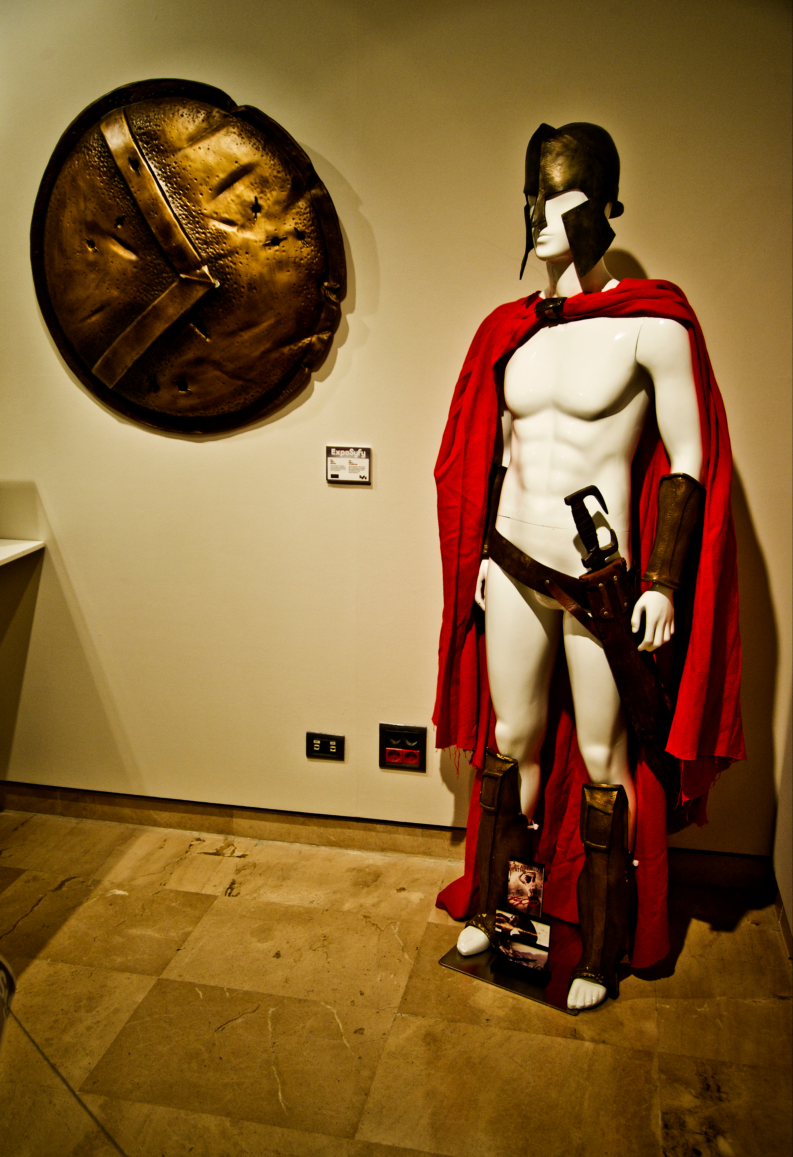 displayed at ExpoSYFY, San Sebastián, Spain